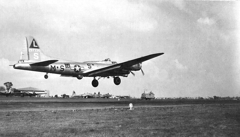 "Chug-A-Lug IV" B-17G-45-BO s/n 42-97330 535th BS, 381st BG, 8th AF Lost on the November 6,1944 mission to Hamburg,Germany. MACR 10154 Photo taken at: RAF Ridgewell (USAAF Station 167), England